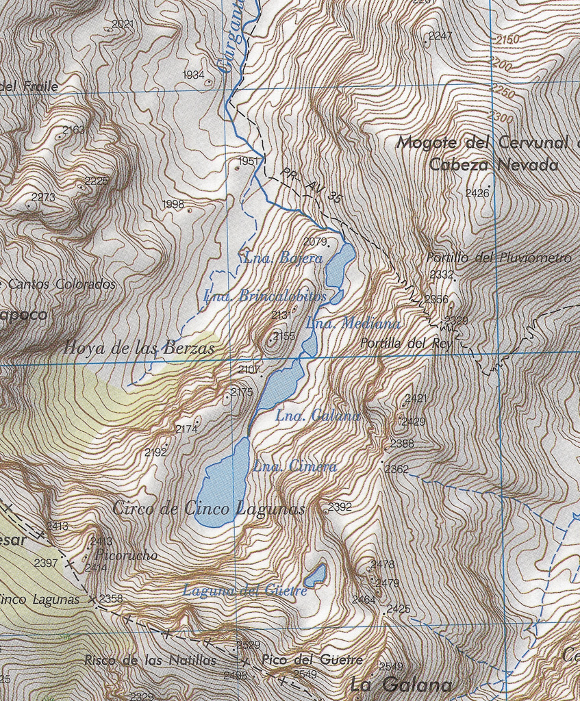 Fragment 0577c2 of the National Topographic Map of Spain in 2014 at a scale of 1:25000 printed and scanned with a resolution of 250 ppi. It shows Laguna Grande.